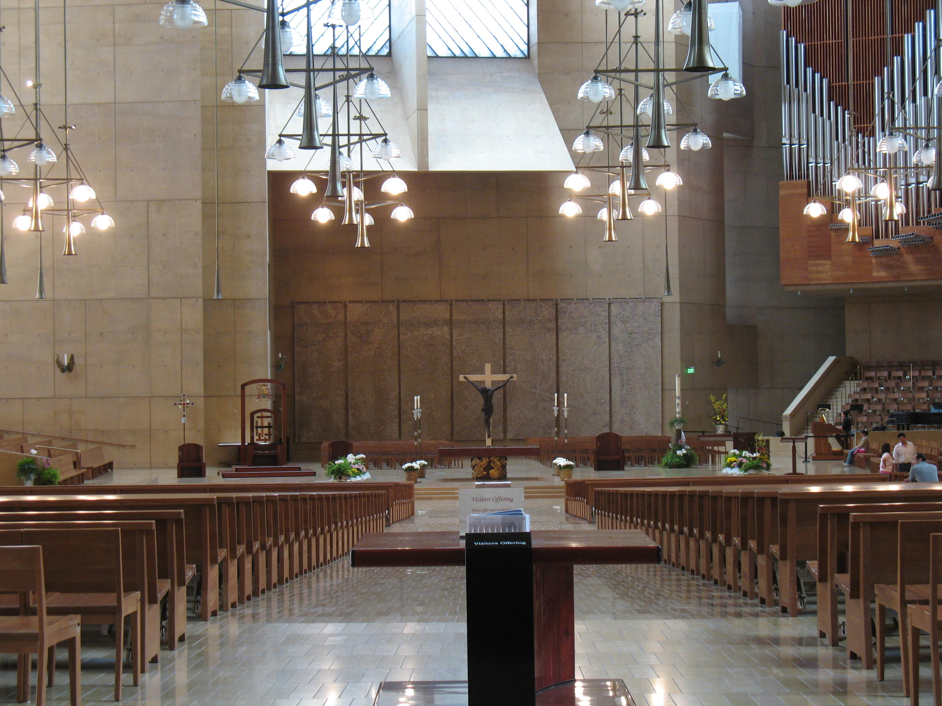 The Cathedral of Our Lady of the Angels is a cathedral church of the United States in the City of Los Angeles in California.